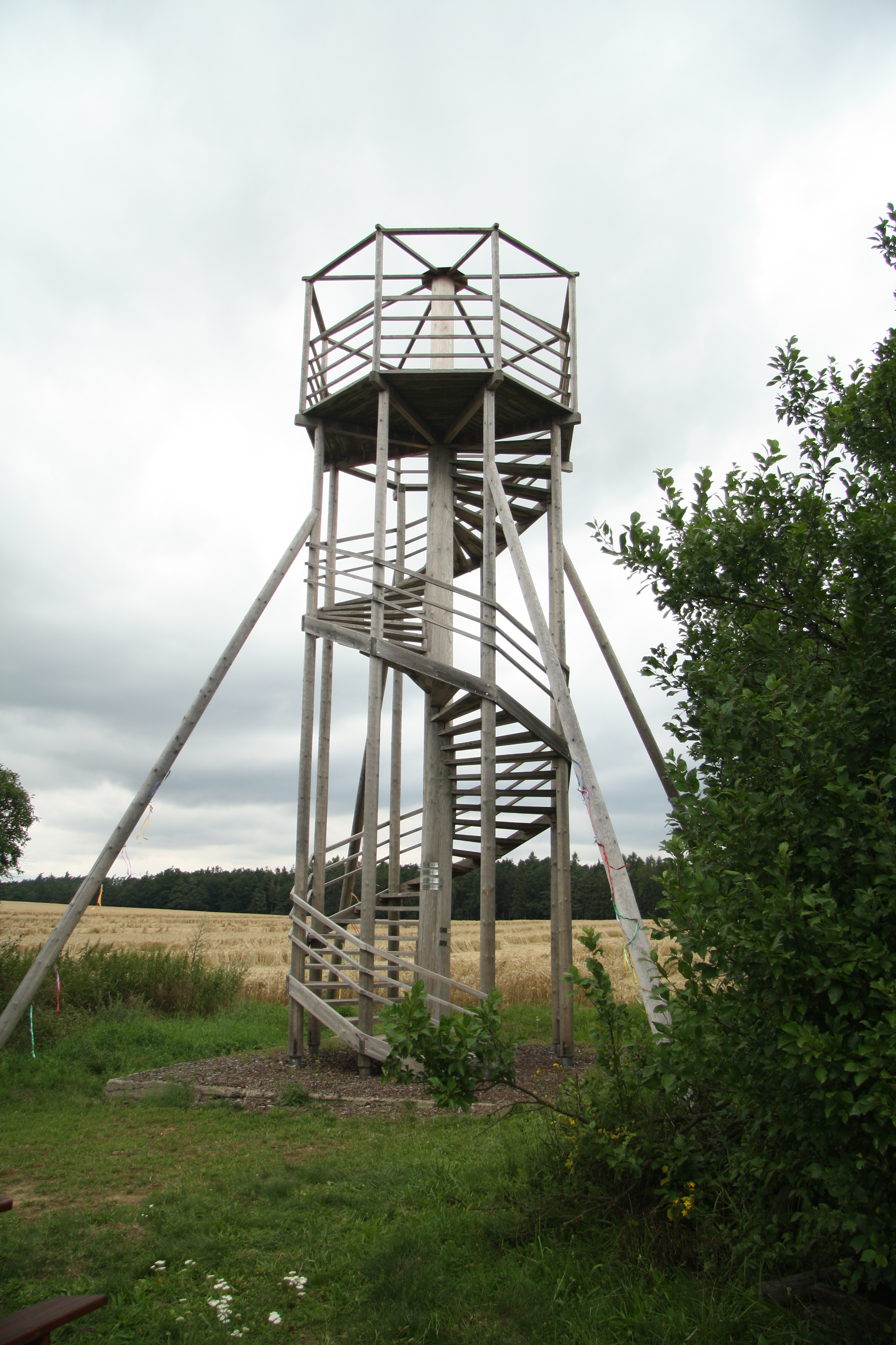 Viewtower Anička near way of the cross in Jiřice u Moravských Budějovic, Znojmo District.